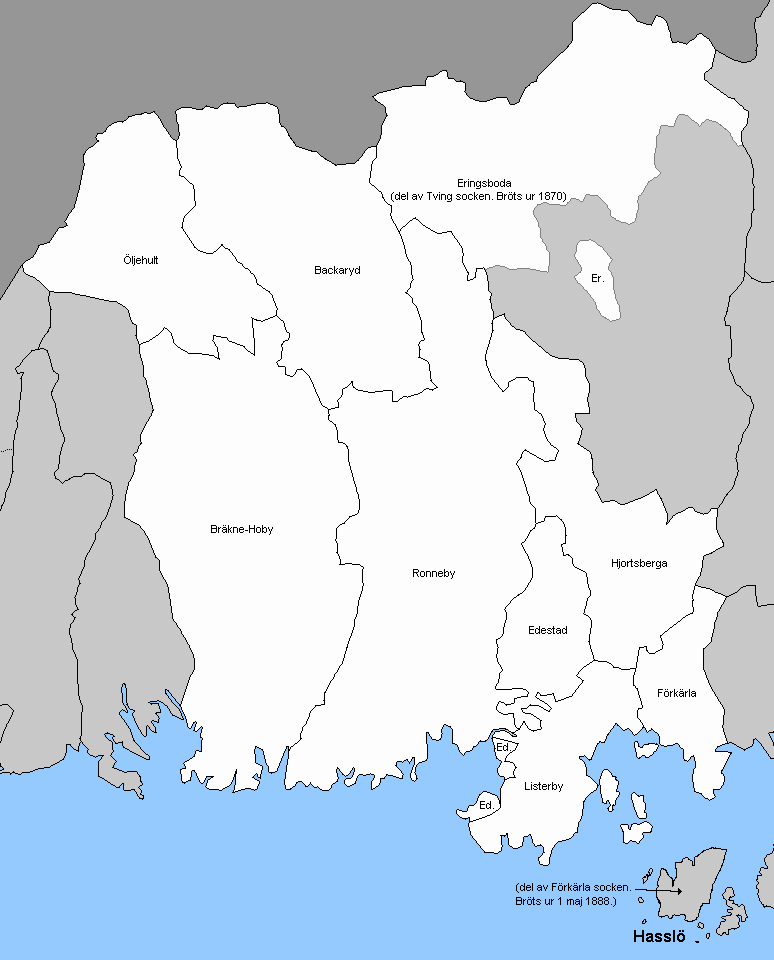 socken in Ronneby